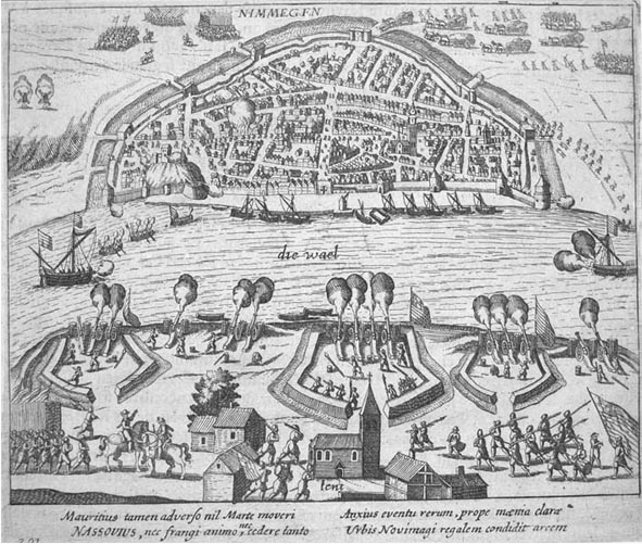 Siege of Nijmegen 1591